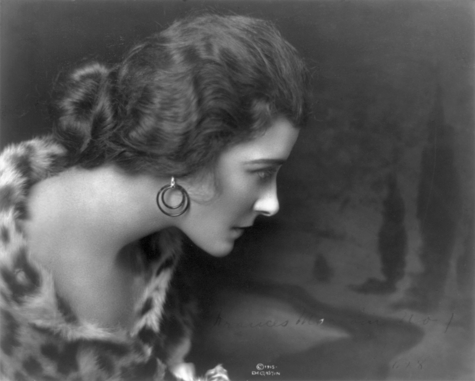 Portrait photograph of Frances Marion